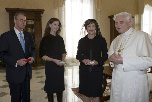 Caption: Mrs. Laura Bush, daughter Barbara Bush and Francis Rooney, U.S. Ambassador to the Vatican, meet in a private audience with Pope Benedict XVI, Thursday, Feb. 9, 2006 at the Vatican.